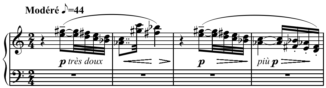 Use of the whole tone scale in Debussy's Voiles (1910), Prelude. 2, mm.1-4.